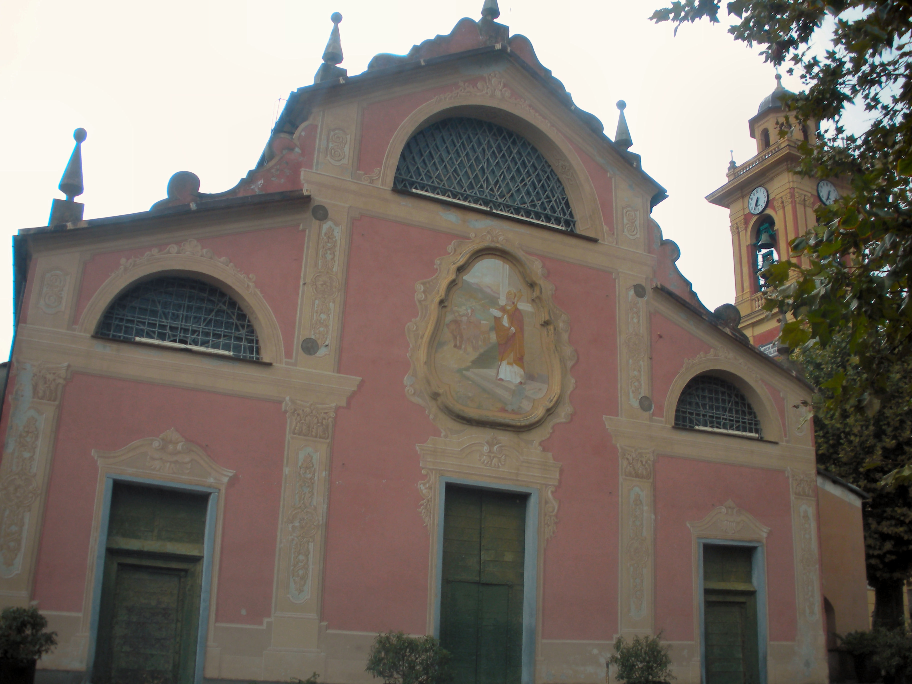 Church of St. Olcese (Sant'Olcese, province of Genoa, Italy)